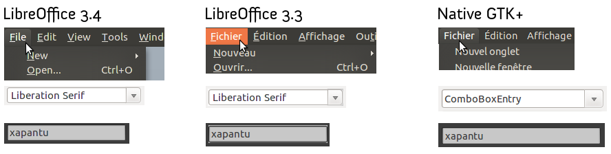 Improved GTK+ theme integration in LibreOffice 3.4.